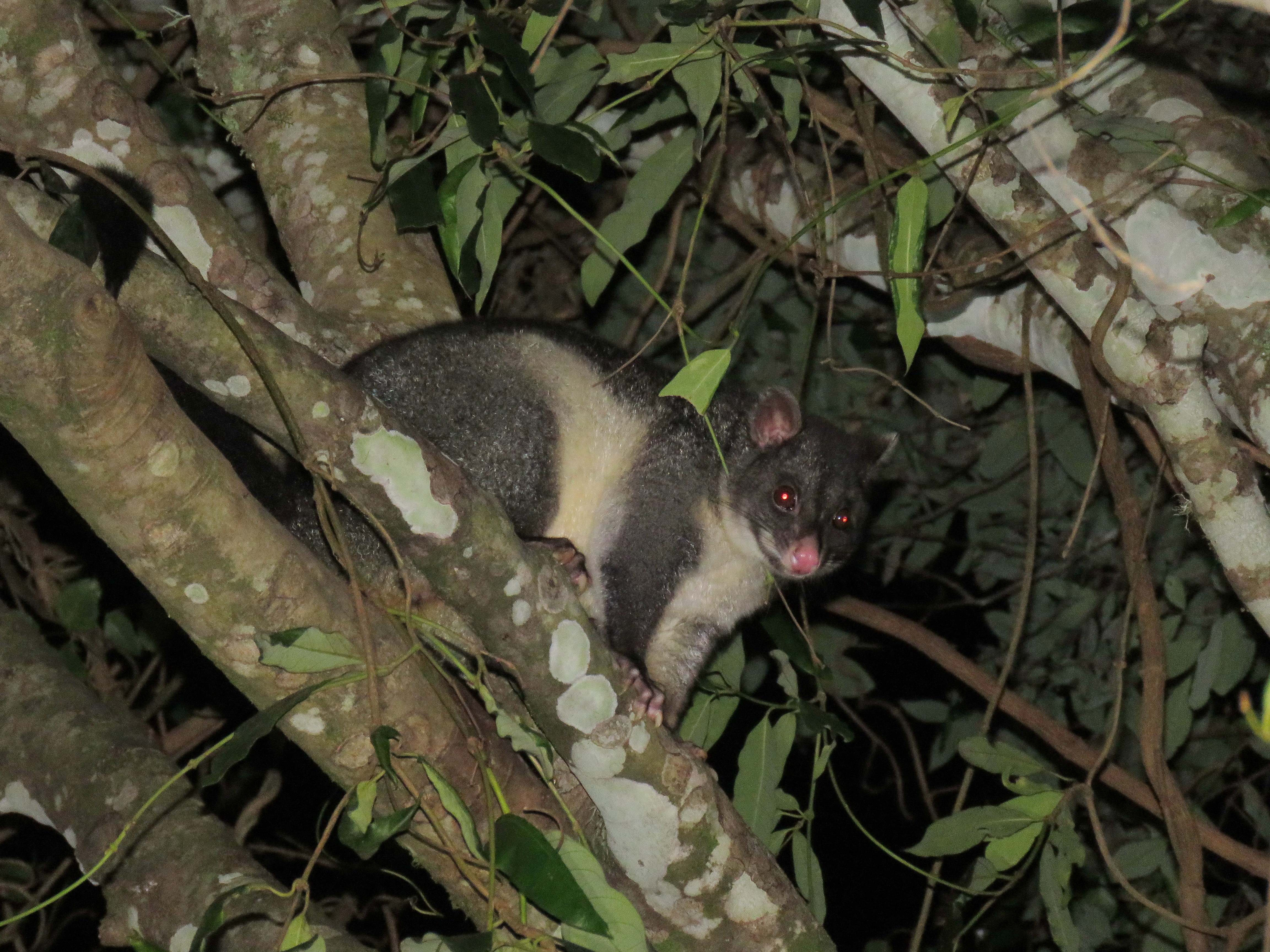 Trichosurus caninus (Ogilby, 1836), Short-eared Brushtail Possum, Lamington National Park, Queensland, Australia, 26 May 2017